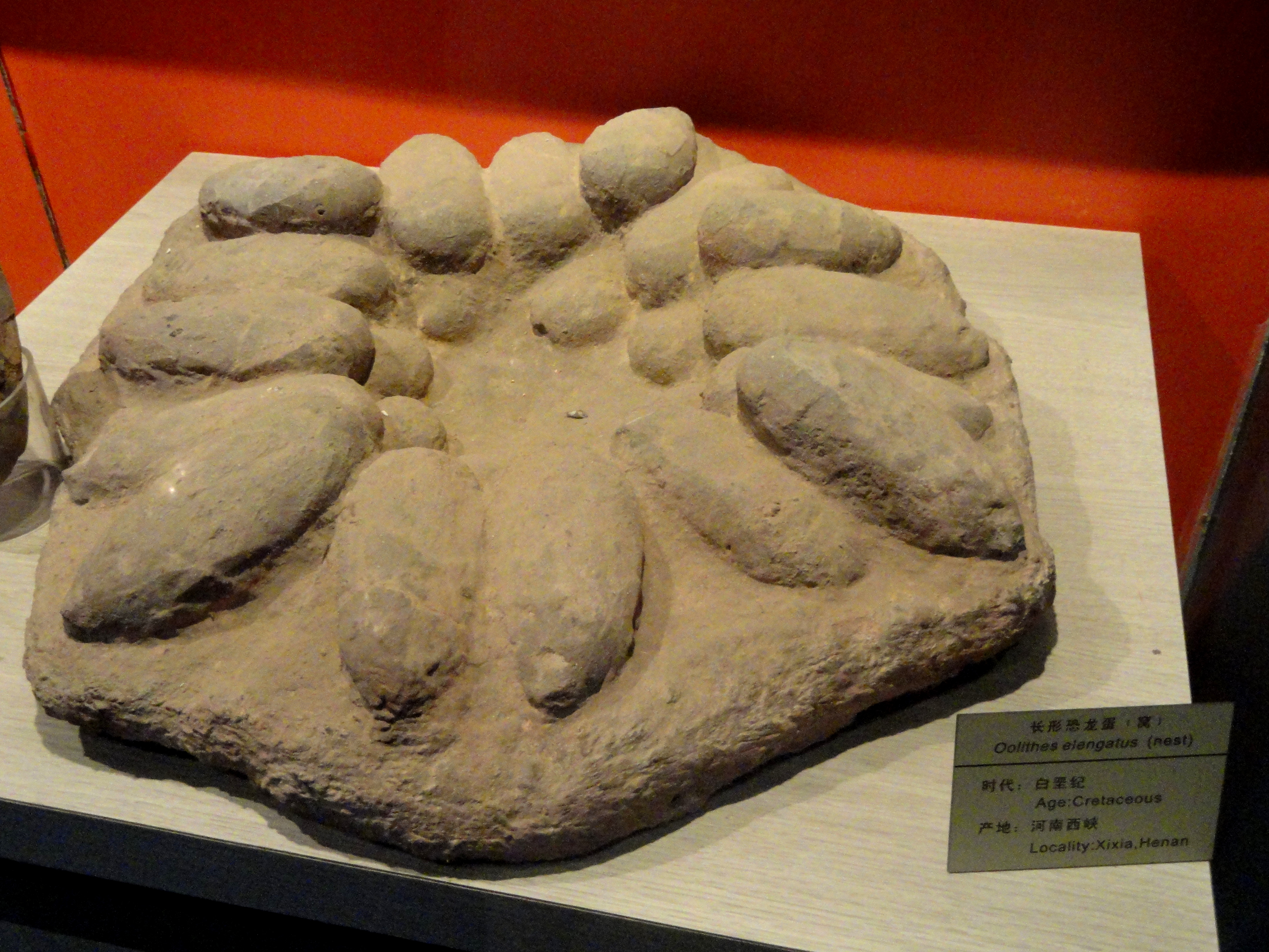 Fossil exhibit in the Kunming Natural History Museum of Zoology (昆明动物博物馆), Kunming, Yunnan, China.